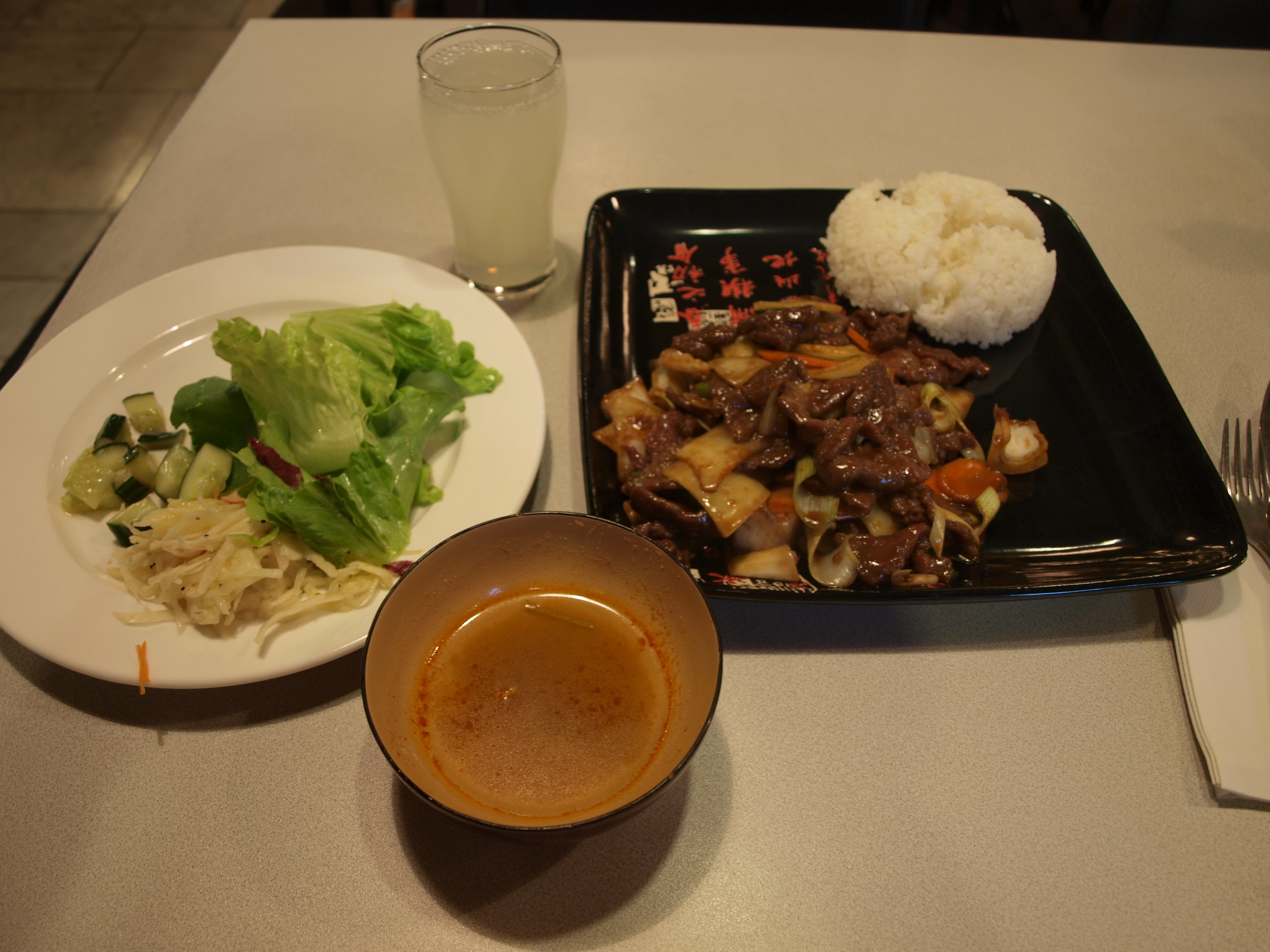 A plate of beef wok with rice, accompanied with salad and miso soup, and a glass of lemon juice, photographed at the restaurant Nooshi in central Stockholm, Sweden.